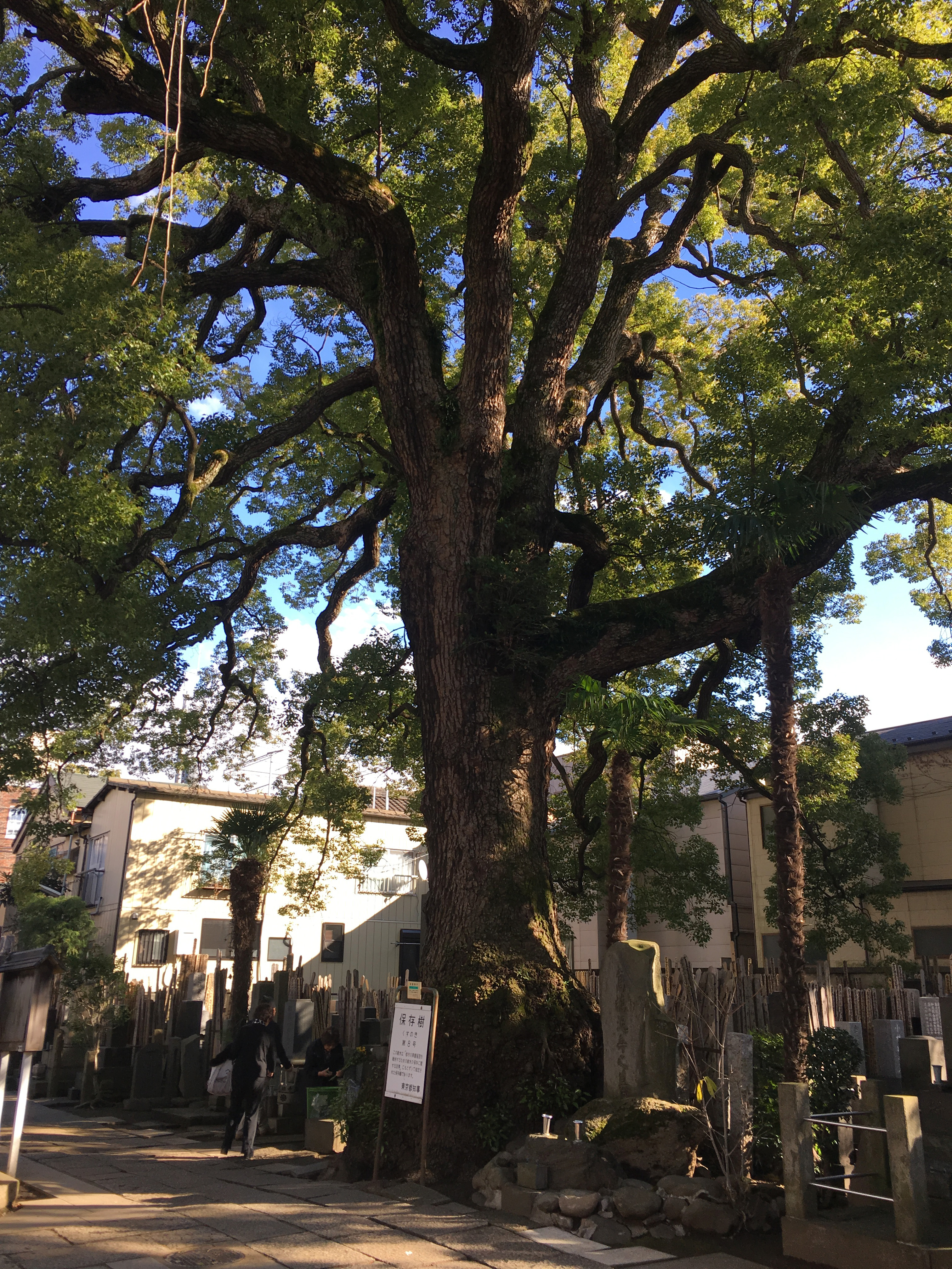 The tomb of Takahashi Deishu (Japenese samurai in 19th century)